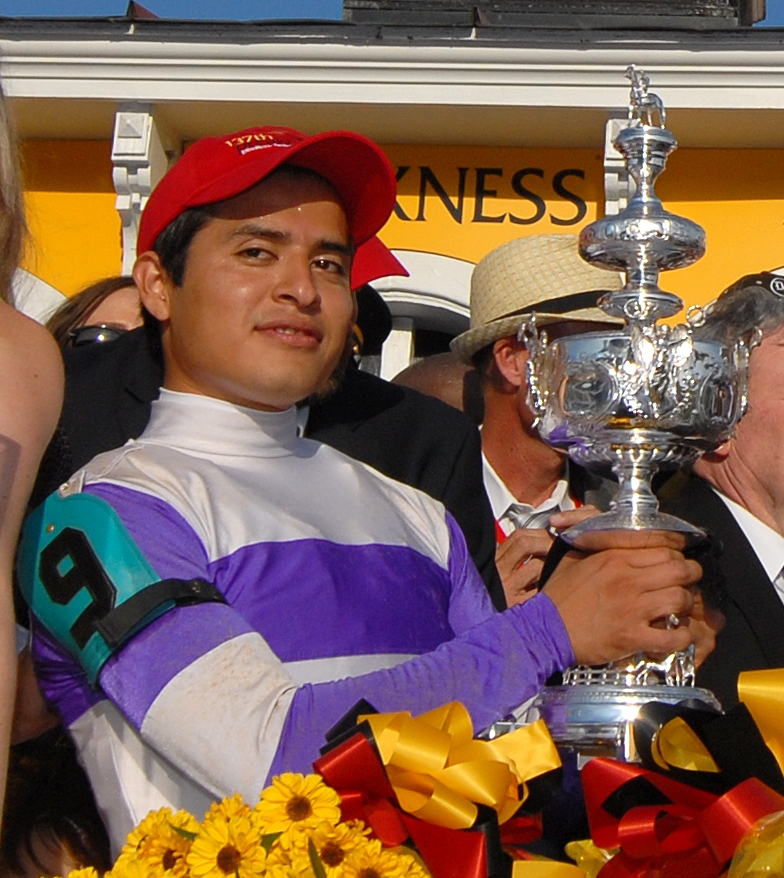 Governor O'Malley attends 137th running of the Preakness by Tom Nappi at Pimlico Racetrack, Baltimore,Maryland. I'll Have Another's jockey Mario Gutierrez with trophy.